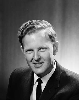 A 1964 black and white portrait of Wylie Gibbs, MHR for Bowman